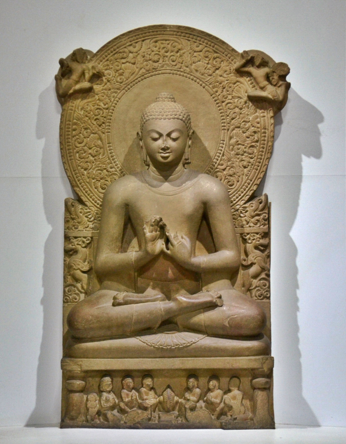 The statue in 1905 at the time of its discovery (to the right of the photograph).Seated Buddha; circa 475; sandstone; height: 1.6 m (5 ft. 3 in.); Sarnath Museum (India). This figure, his hands in the dharmachakra mudra gesture of teaching, refers to the Buddha's first sermon at Sarnath, where the figure was found.